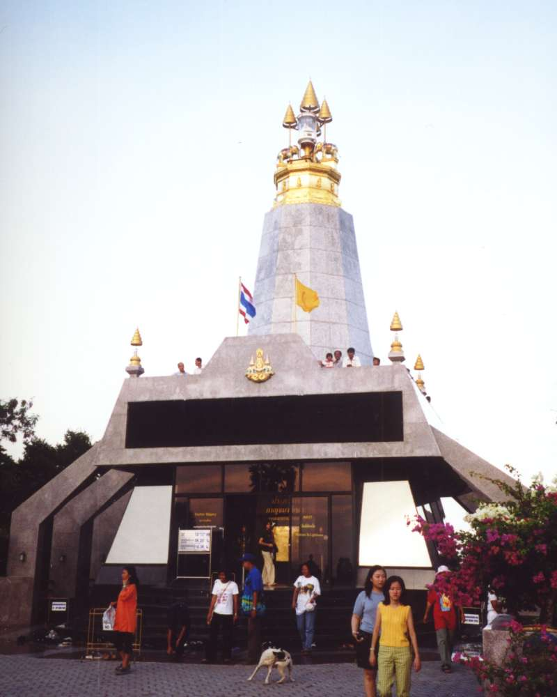 Kanchanapisek Lighthouse on Phuket, Thailand, located at Promthep Cape. The lighthouse was build in 1996 to commemorate the 50th anniversary of the ascension of King Rama IX to the throne. Photo taken by User:Ahoerstemeier on April 12 2001.